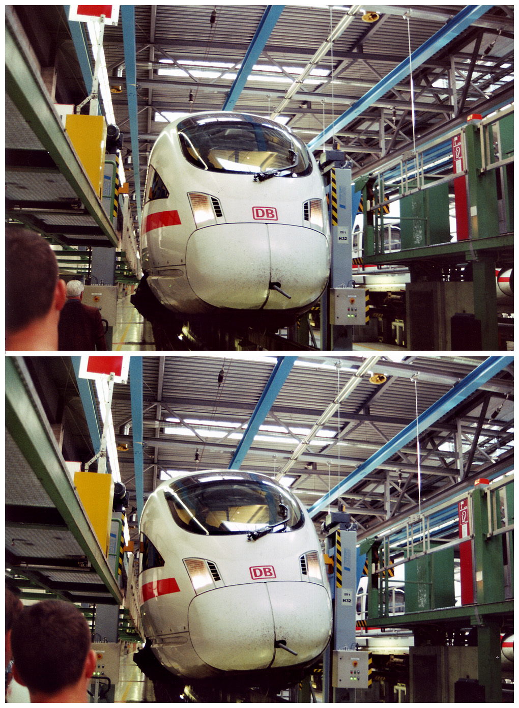 An ICE-T (ICE with tilting technology) with and without inclination during a presentation.